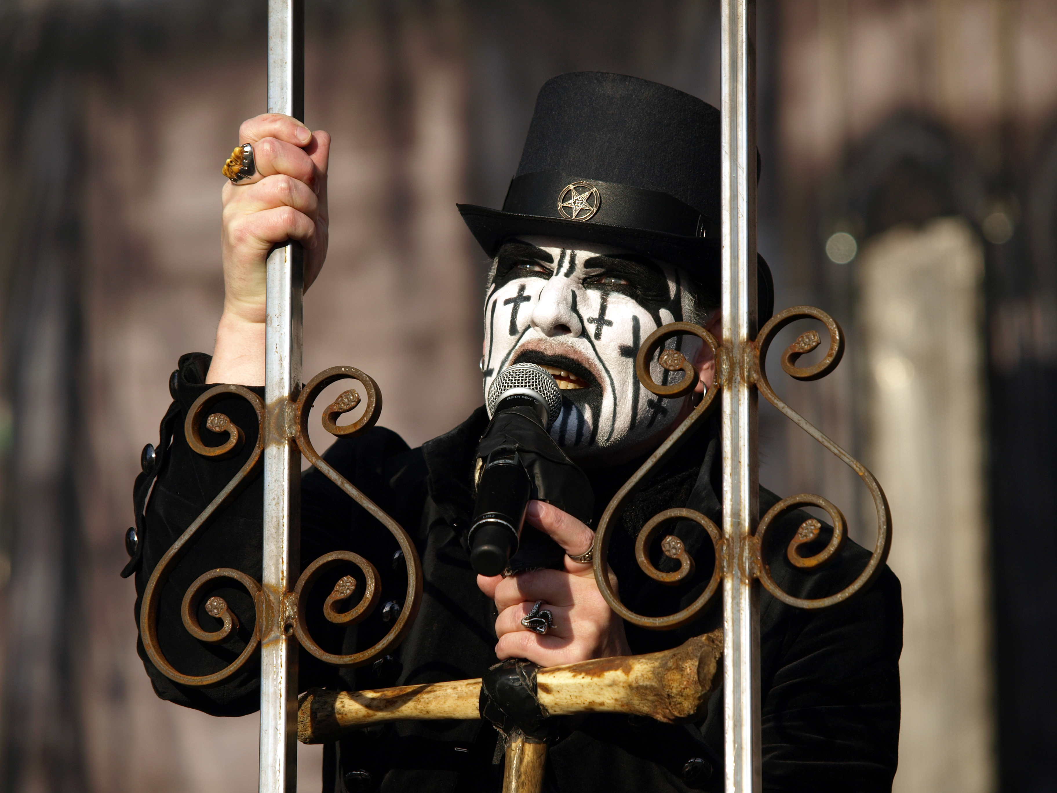 King Diamond and his band live at Tuska Open Air 2013